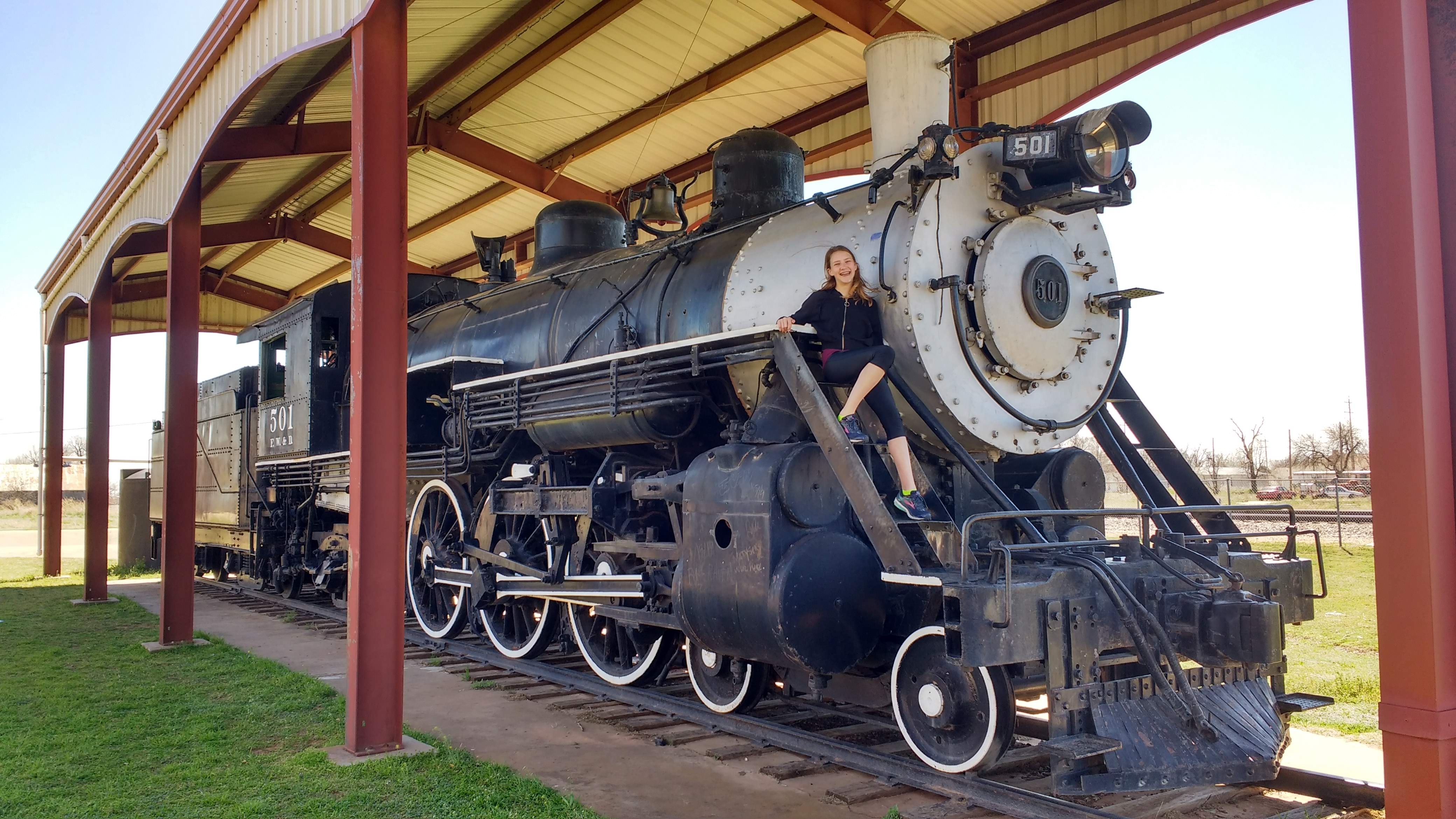 Balwin Locomotive Works 4-6-2 in Childress, Texas.